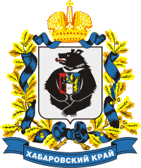 Khabarovsky kray, coat of arms (N2)